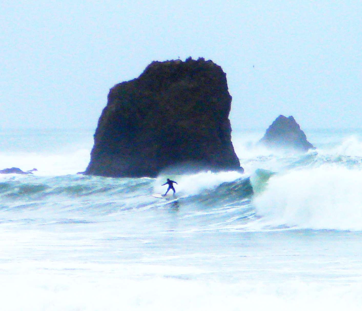 Zoom into these surfing pictures! It wasn't storm, but surf was good. Surfers came immediately after 8am.